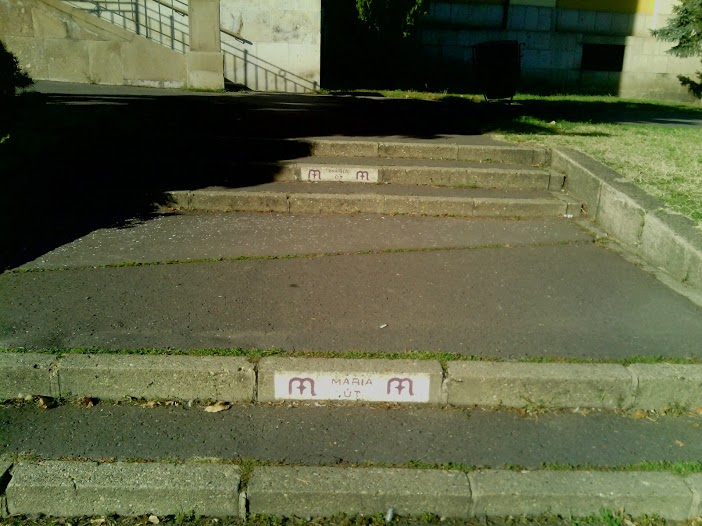 "The way of Mary" signs on steps of Cathedral of Eger, Hungary